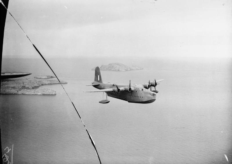 Royal Air Force Operations in Malta, Gibraltar and the Mediterranean, 1940-1945. Short Sunderland Mark 1, N9029 'NM-V', of No. 230 Squadron RAF Detachment based at Scaramanga, Greece, in flight over the Greek islands. It was from this aircraft that Flight Lieutenant A Lywood, reported the Italian fleet movements leading to the Battle of Cape Matapan, while flying out of Scaramanga on 27-28 March 1941.